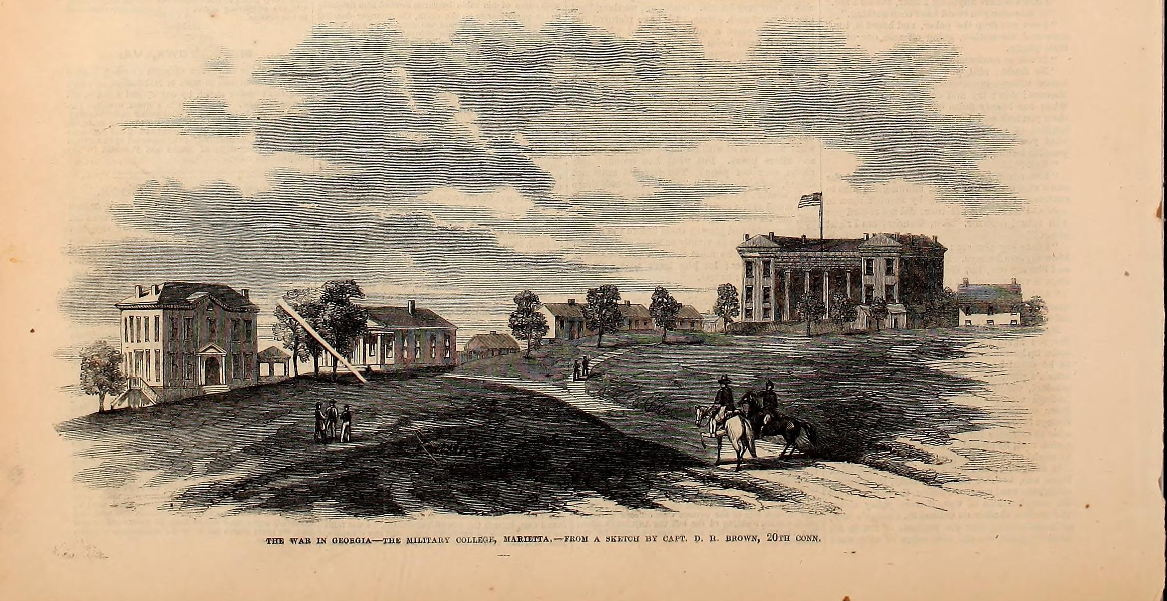 The War in Georgia, The Military College, Marietta, by Capt. David R. Brown, 20th Connecticut Volunteers